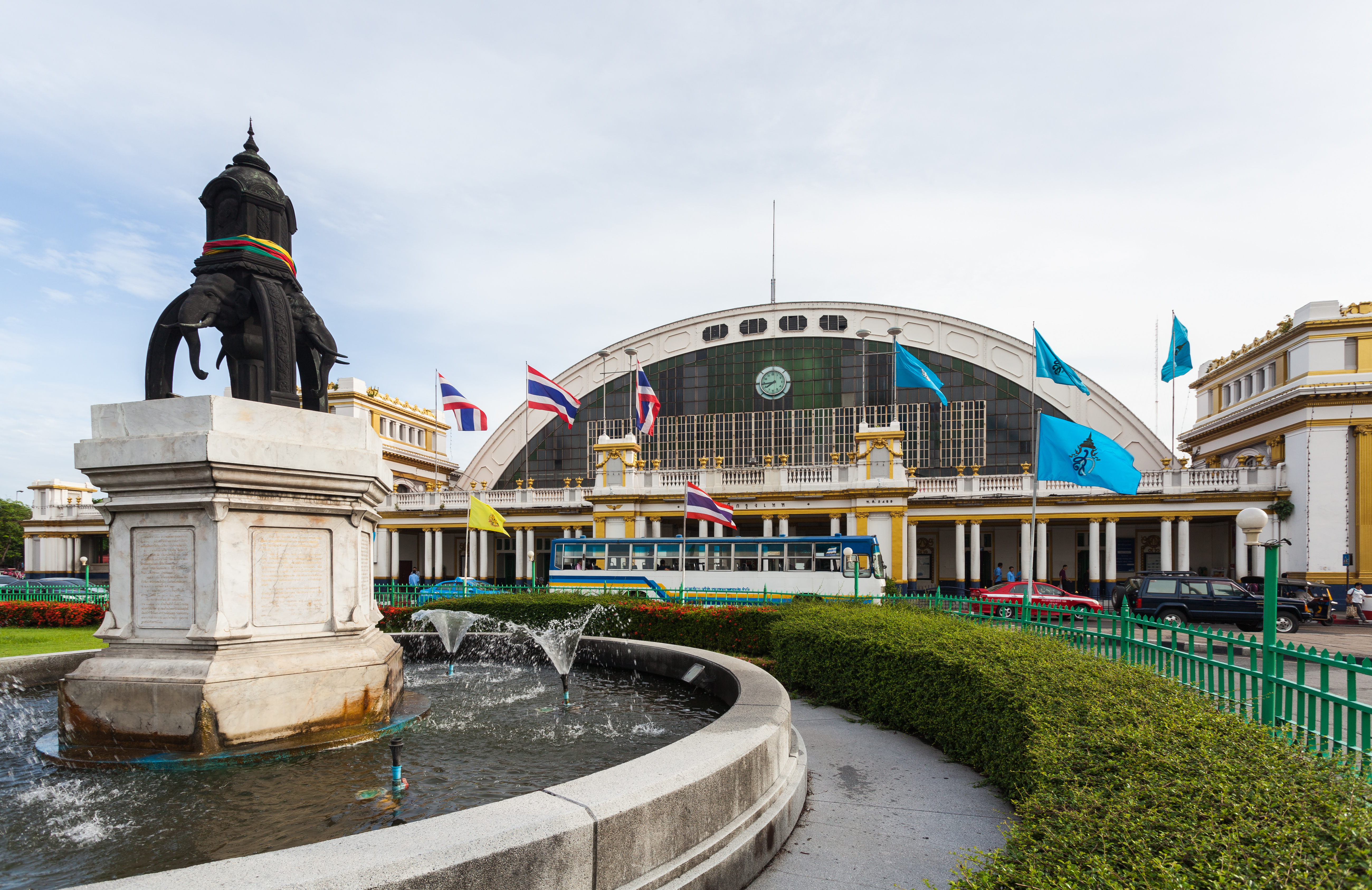 Hua Lamphong Railway Station, Bangkok, Thailand